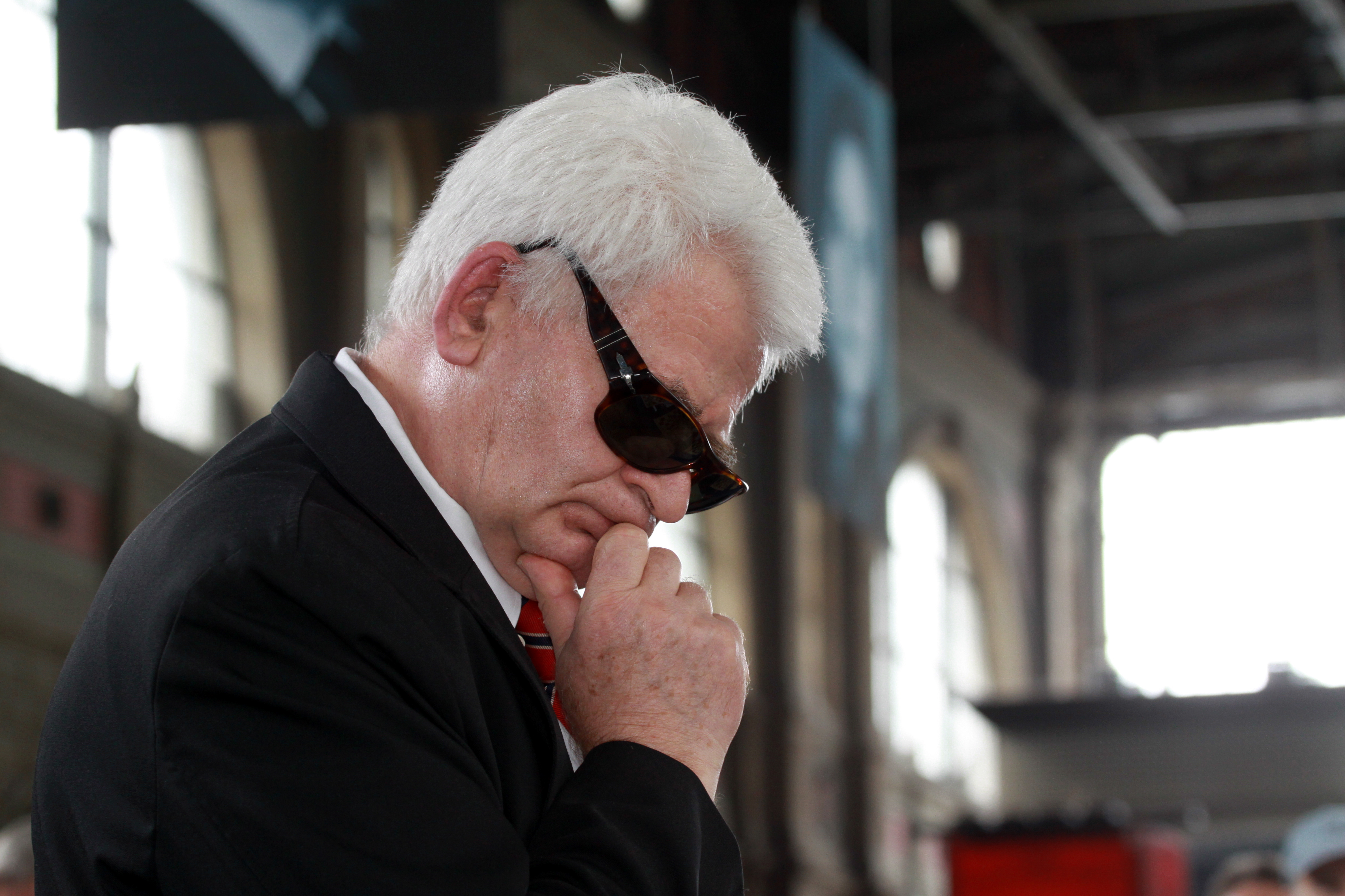 World Chess Champion Boris Spassky, France